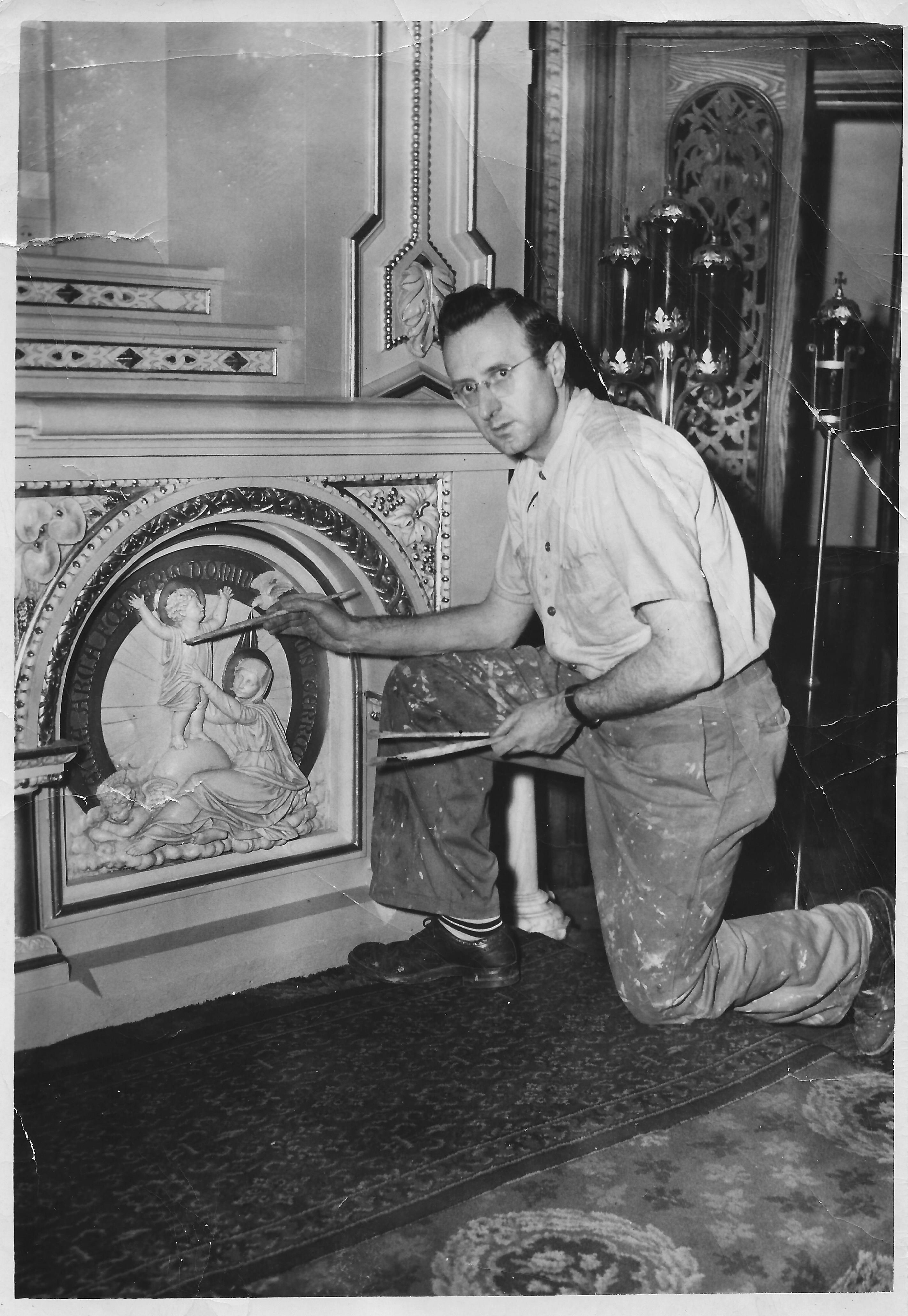 Alphonse Lespérance at work at the Notre-Dame-de-Lourdes chapel.